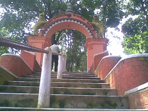 Main entrance gate to Mahamaya Temple complex